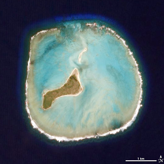 NASA satellite picture of Oeno Atoll (Pitcairn Islands) in the Pacific Ocean